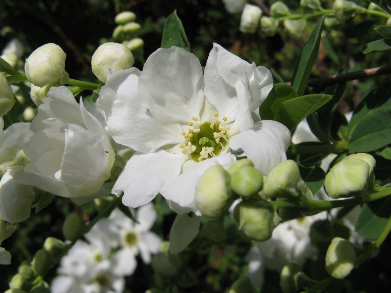 Flower detail